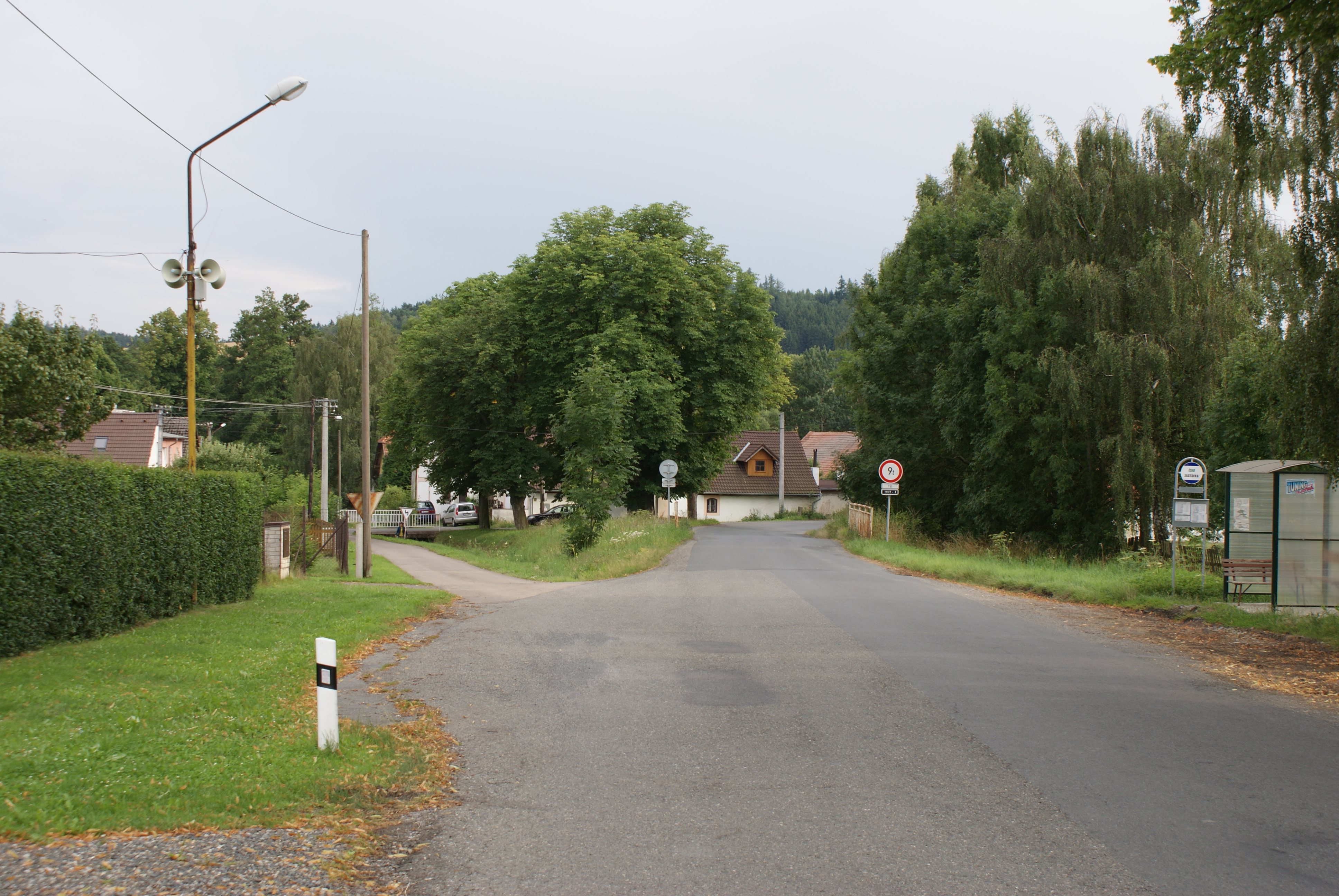 Kokořov, village in Plzeň jih district, Czech Republic. The village common. Česky: Kokořov, okres Plzeň jih, Česká republika, náves.